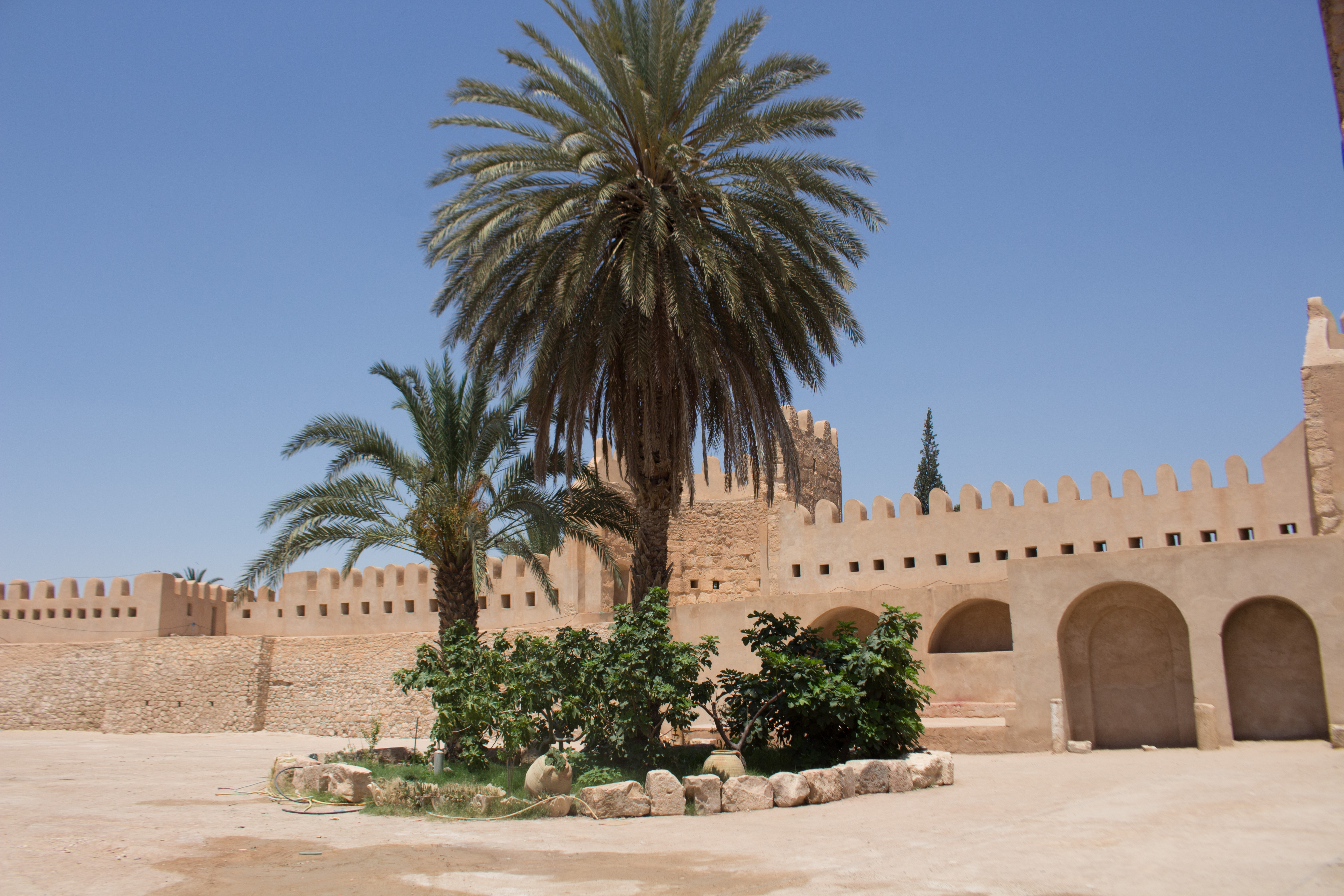 Inside The kasbah, Gafsa's Byzantine fortress